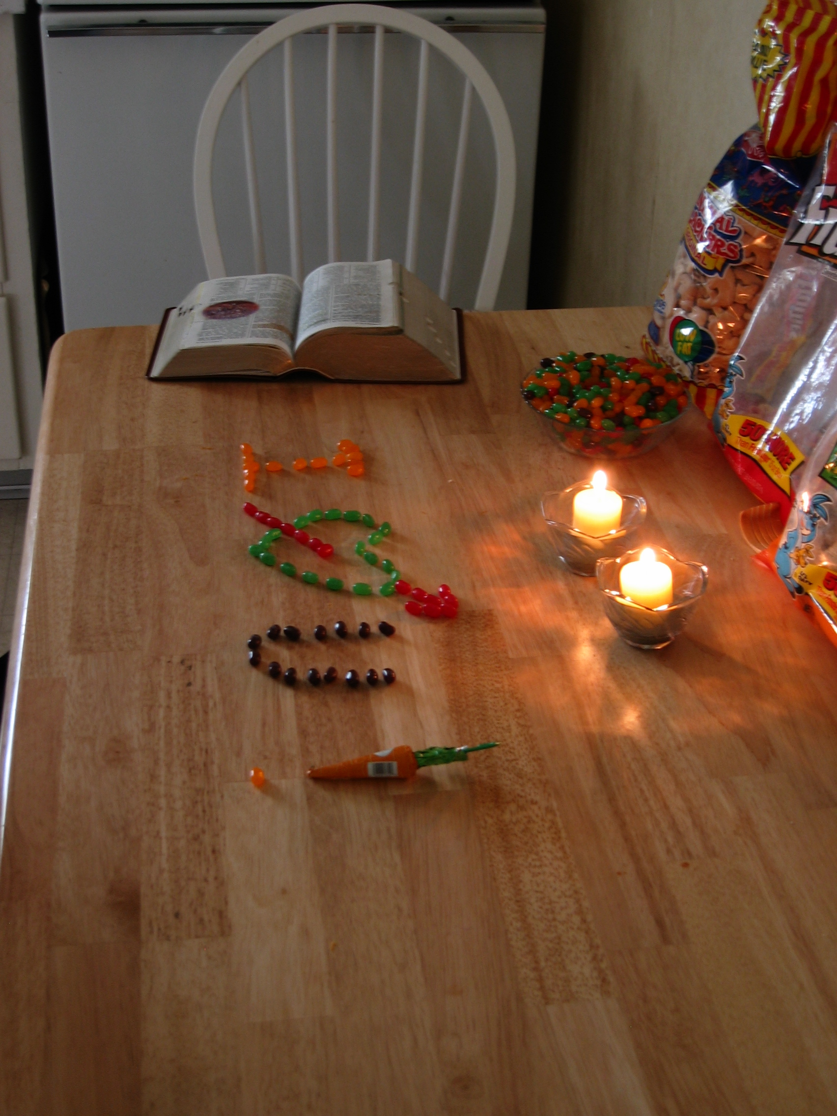 I Love You! written with candies.